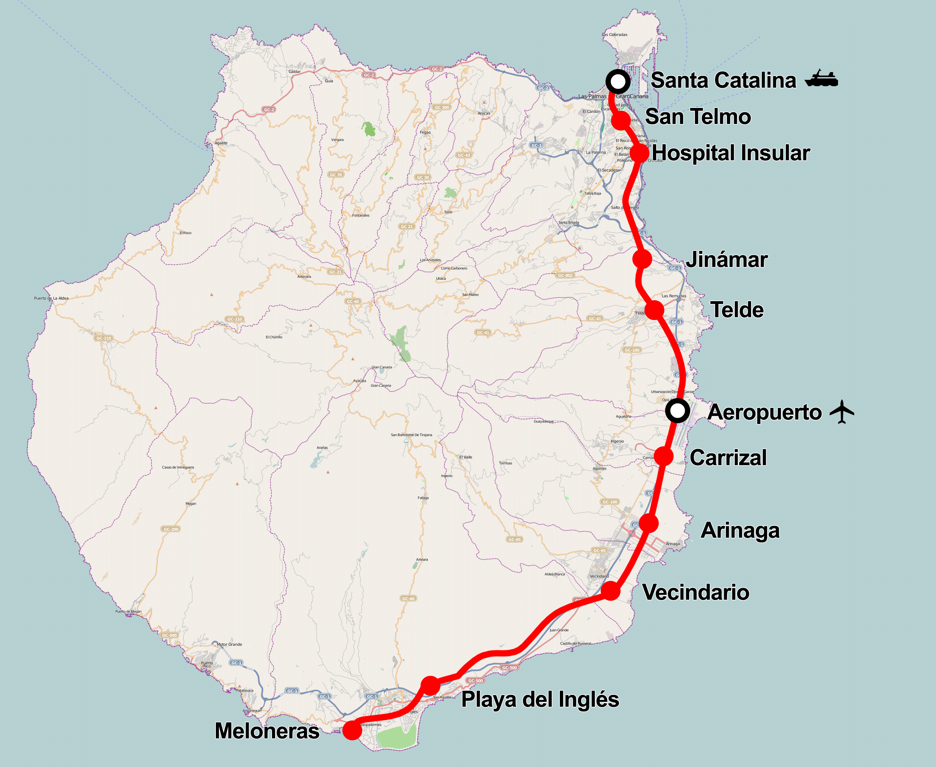 Map of the proposed route of the Gran Canaria railway (Tren de Gran Canaria) in the Canary Islands. Proposed since 2009, this line has not yet been built. This map may be incomplete, and may contain errors. Don't rely solely on it for navigation.